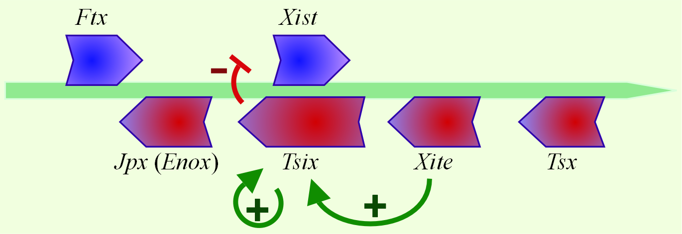 Site of the X chromosome inactivation in mouse.